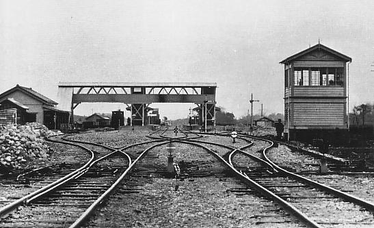 Ikebukuro Station in Meiji era